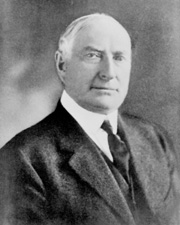 Portrait of Congressman Samuel Danford Nicholson